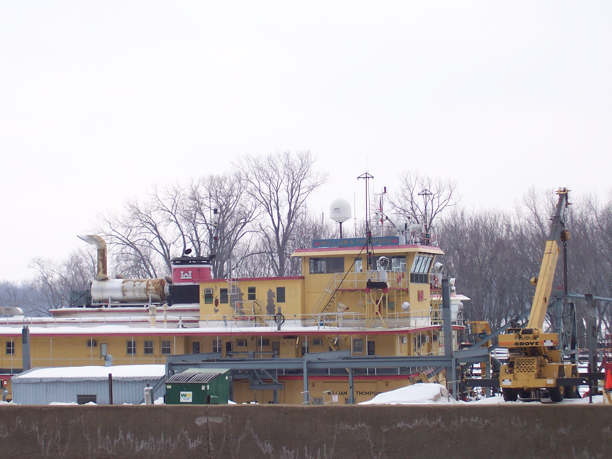 I took this picture myself.